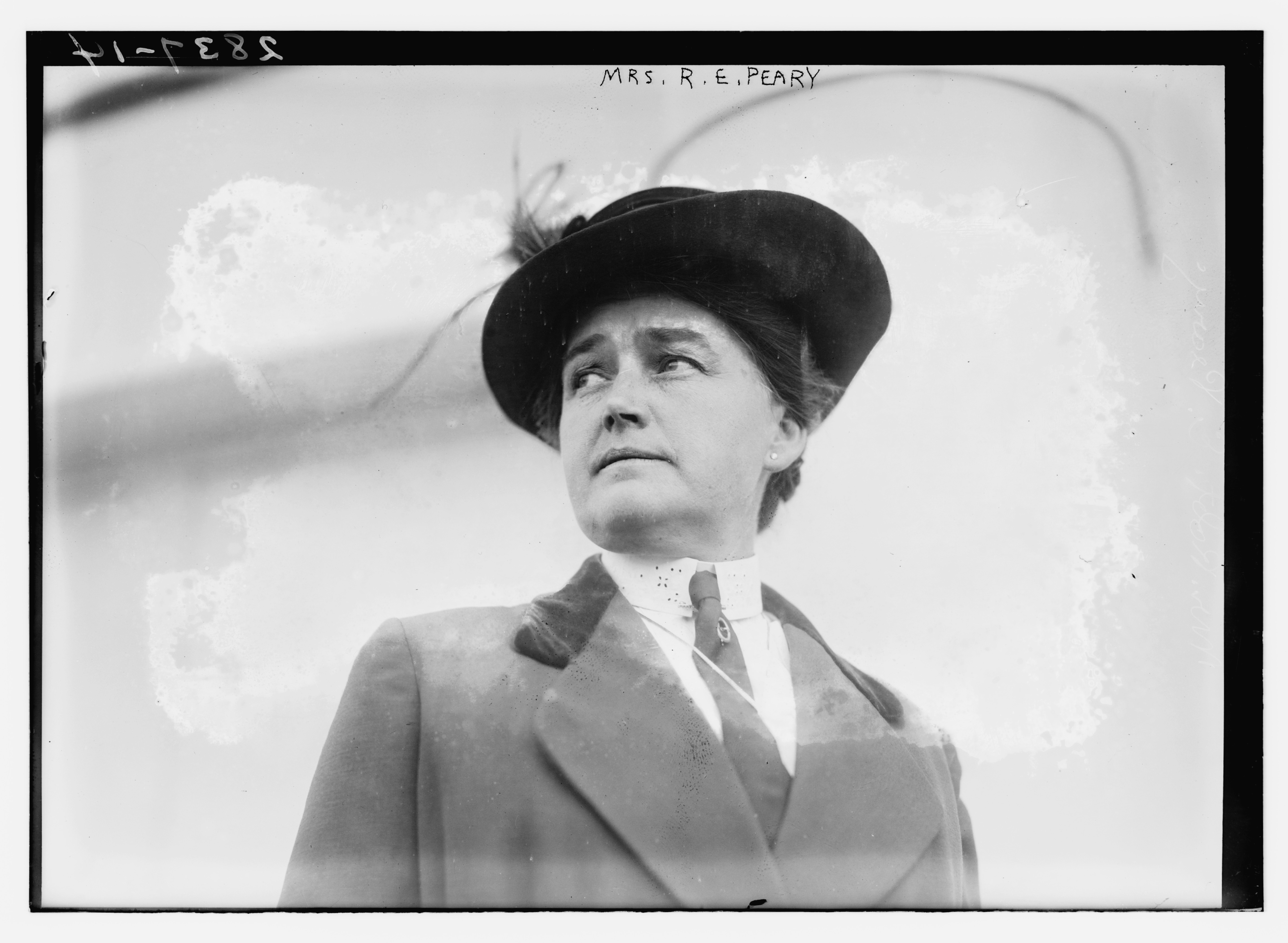 Bain News Service,, publisher. Mrs. Robert E. Peary, Josephine Diebitsch Peary circa 1913 [between ca. 1910 and ca. 1915] 1 negative : glass ; 5 x 7 in. or smaller. Notes: Title from data provided by the Bain News Service on the negative. Photo shows Josephine Diebitsch Peary (1863-1955), the wife of arctic explorer Admiral Robert E. Peary. (Source: Flickr Commons project, 2010) Forms part of: George Grantham Bain Collection (Library of Congress). Format: Glass negatives. Repository: Library of Congress, Prints and Photographs Division, Washington, D.C. 20540 USA, General information about the Bain Collection is available at Persistent URL: Call Number: LC-B2- 2837-14